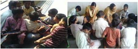 teaching